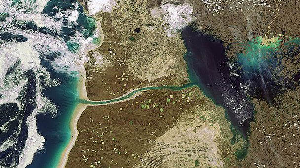 Foxe Basin, highlighted in this Envisat image, is located north of Hudson Bay between Baffin Island (visible along the right side of the image) and the Melville Peninsula (not visible but located to the west, or left). The large round island visible in the top left is Prince Charles Island. Located directly west, or right, of Prince Charles Island is Air Force Island. This image was acquired by Envisat's Medium Resolution Imaging Spectrometer (MERIS) instrument on 15 July 2008, working in Full Resolution mode to provide a spatial resolution of 300 metres.